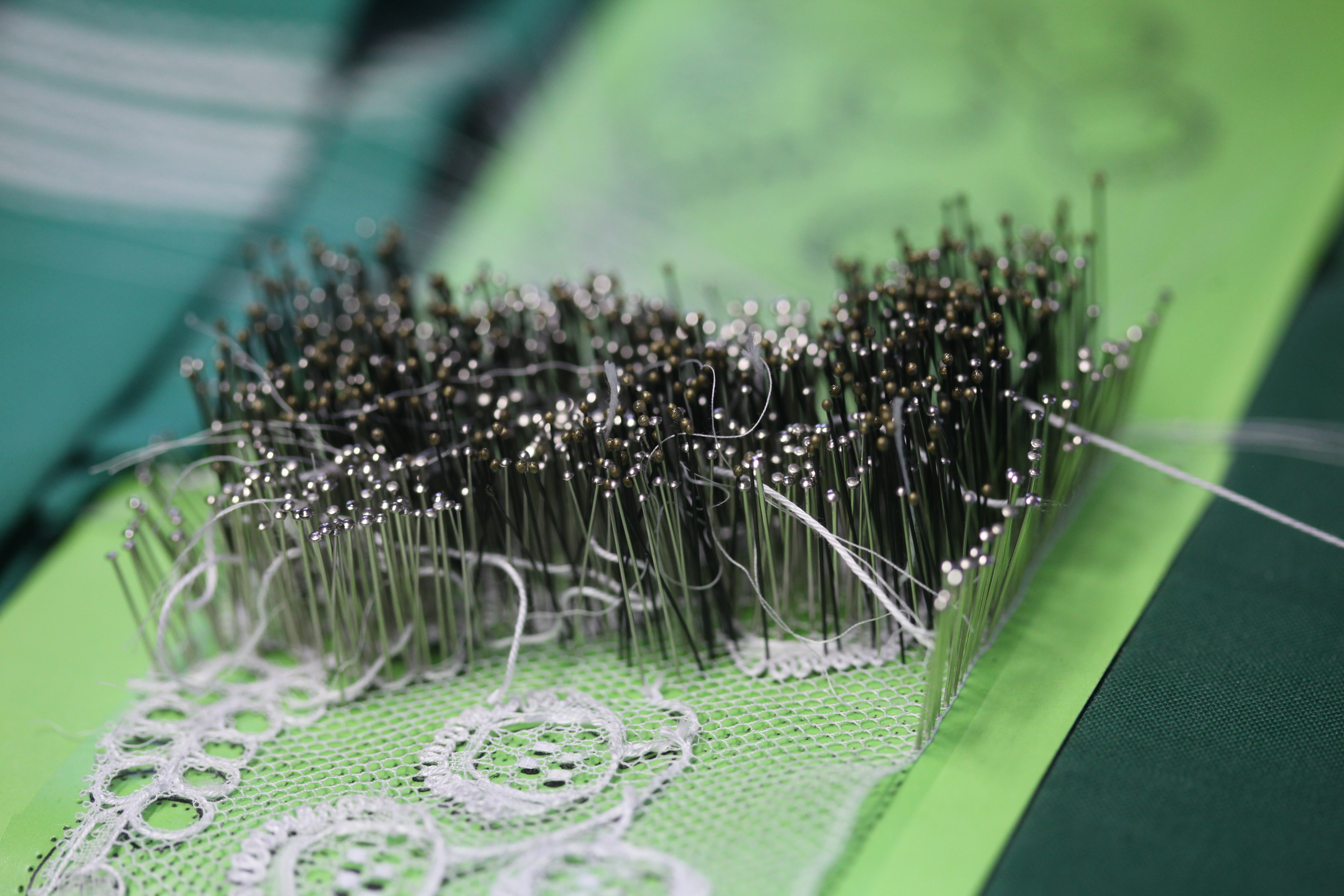 Bobbin lace from Neuchatel, Switzerland. The making of this document was supported by Wikimedia CH. (Submit your project!) For all the files concerned, please see the category Supported by Wikimedia CH.